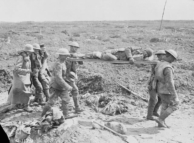 Stretcher bearers and German prisoners bringing in wounded at Vimy Ridge, during the Battle of Vimy Ridge.